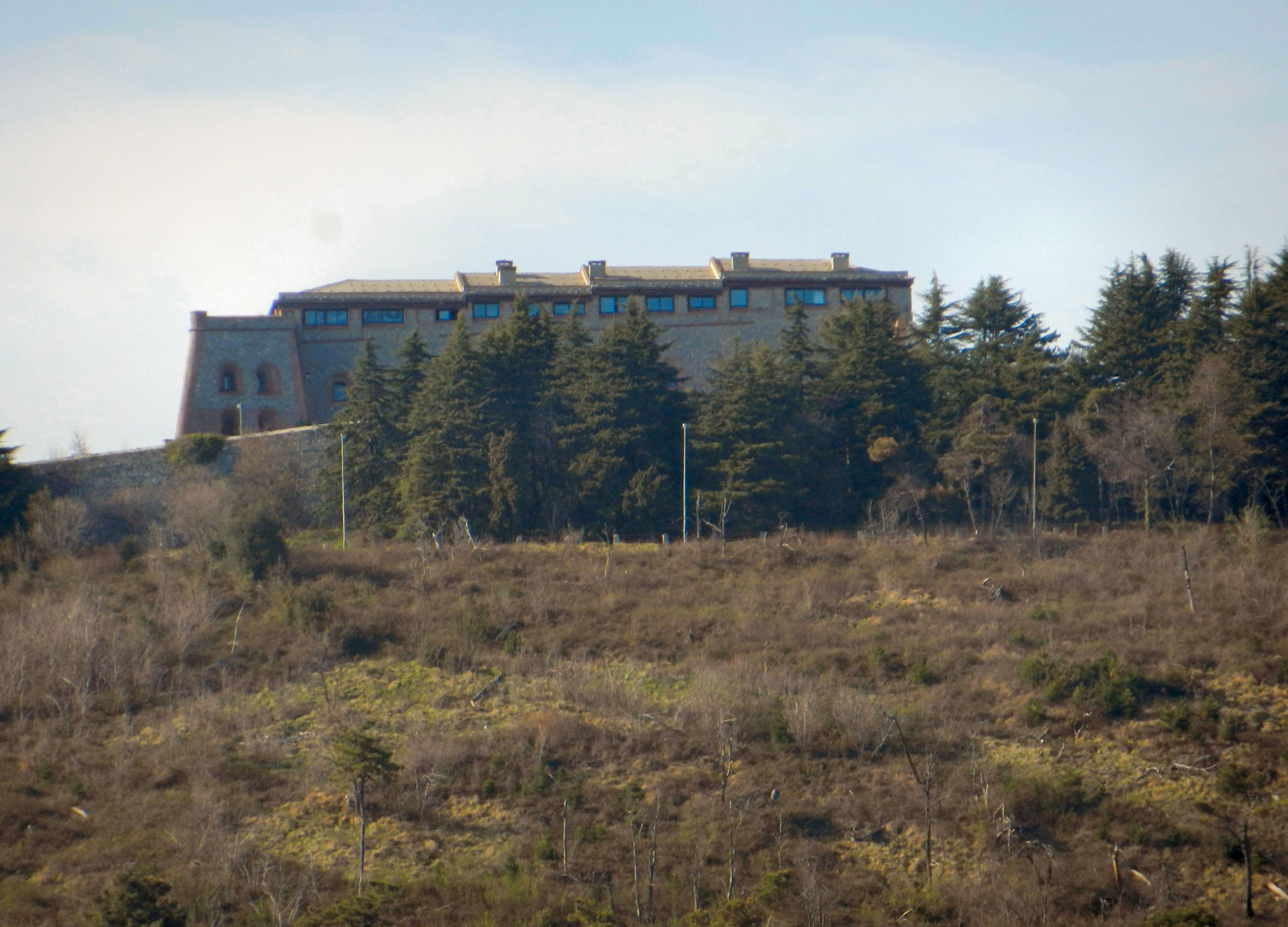 Genoa (Italy), Fort Begato seen from Peralto Park